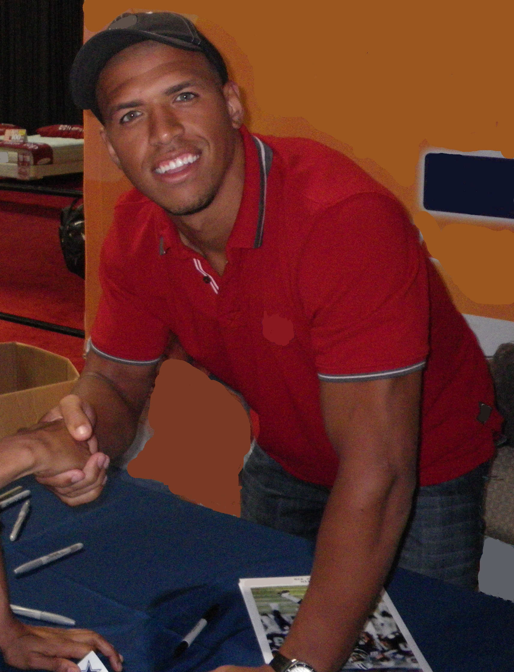 Dallas Cowboys Wide Receiver Miles Austin (#19), publicly shaking hands with a fan at the Texas State Fair on September 29th, 2009. Miles appeared at the Time Warner Cable "Total Digital Home" booth in place of Patrick Crayton, another Cowboys wide receiver, who was out sick. Miles was originally scheduled to appear on October 14th, 2009. Note that this image has been altered to remove corporate logos, names and advertisements that may be copyrighted and/or trademarked by others.